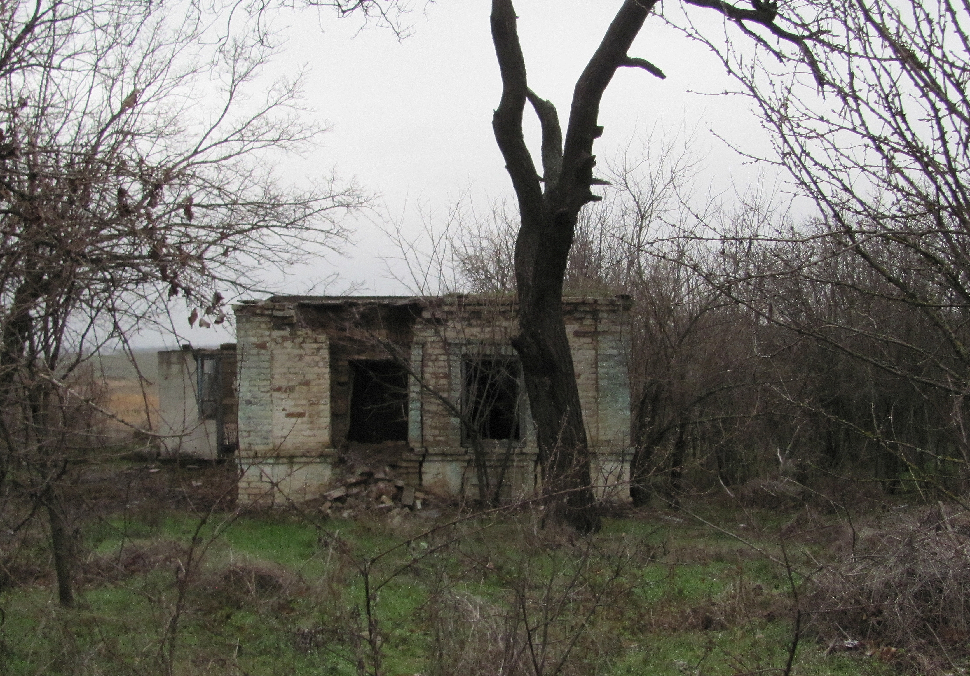 The village of Pischevik is located in the Volnovakha district of the Donetsk region. By 2014, the village was part of the Novoazovsk district.